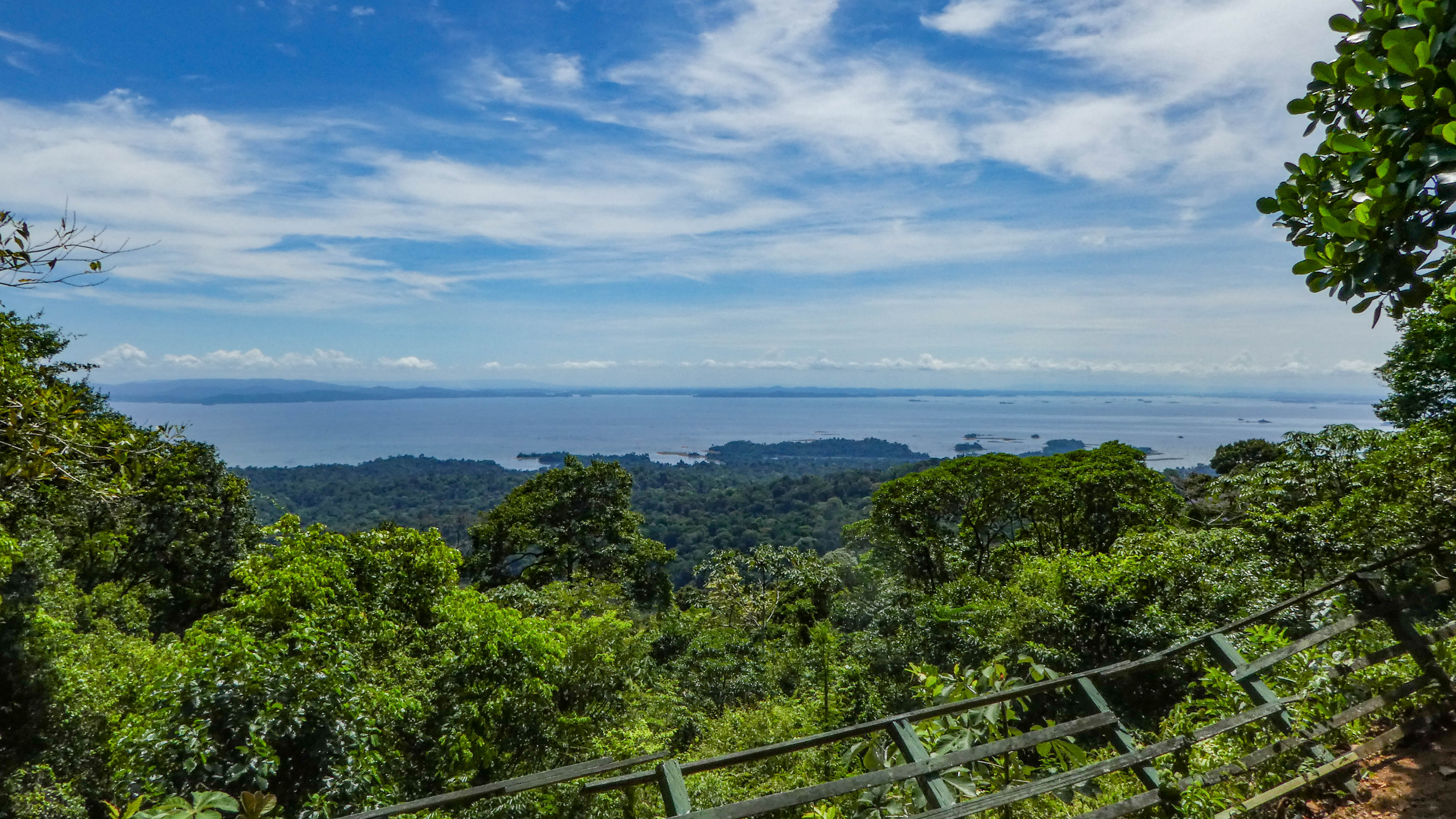 A view of from the top of the Brownsberg of the Brokopondo Reservoir in Suriname